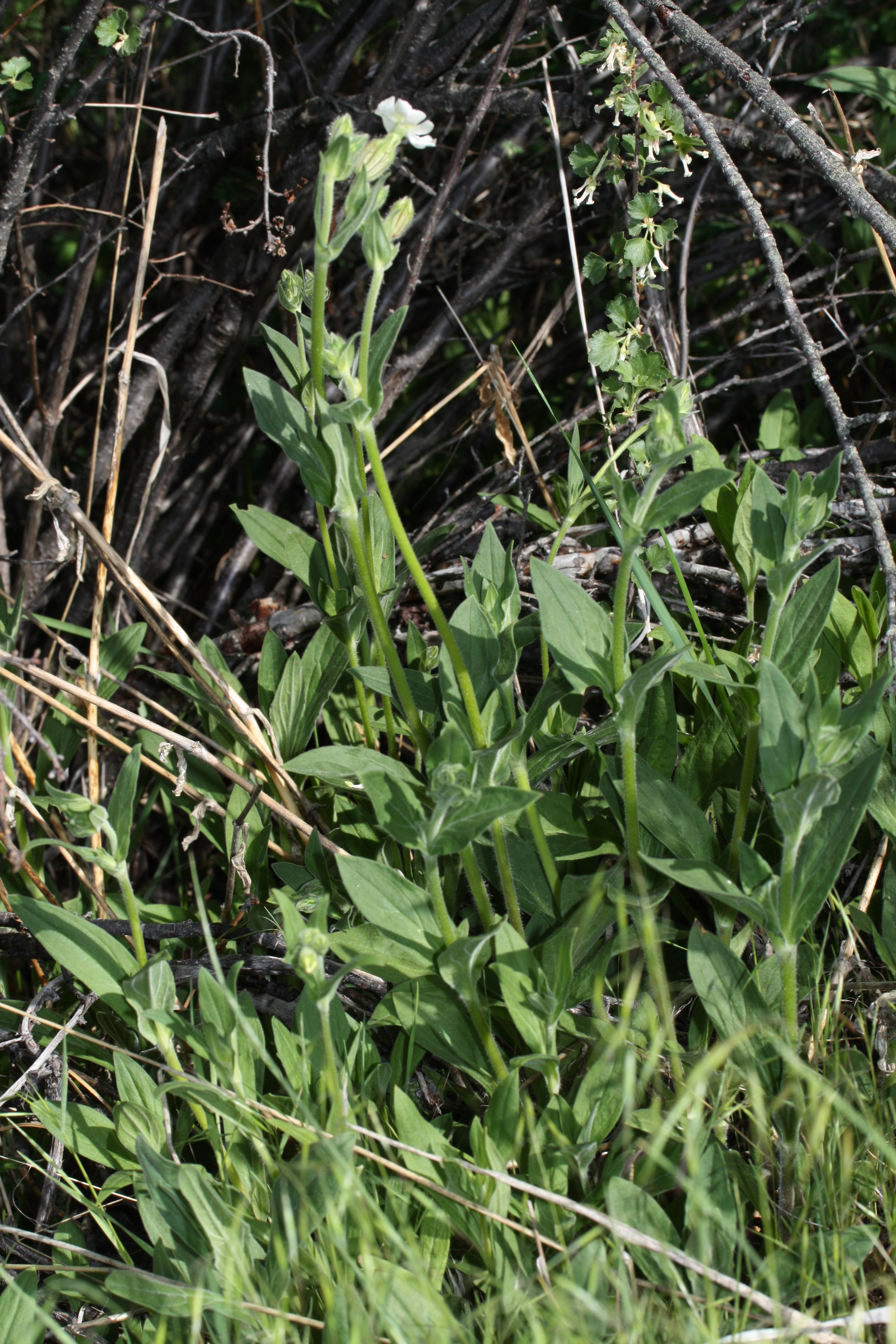 Bladder Campion, White Campion